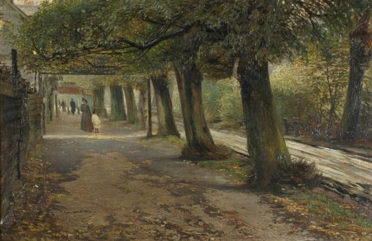 Strandpromenaden, now Østbanegade, in Copenhagen, Denmark